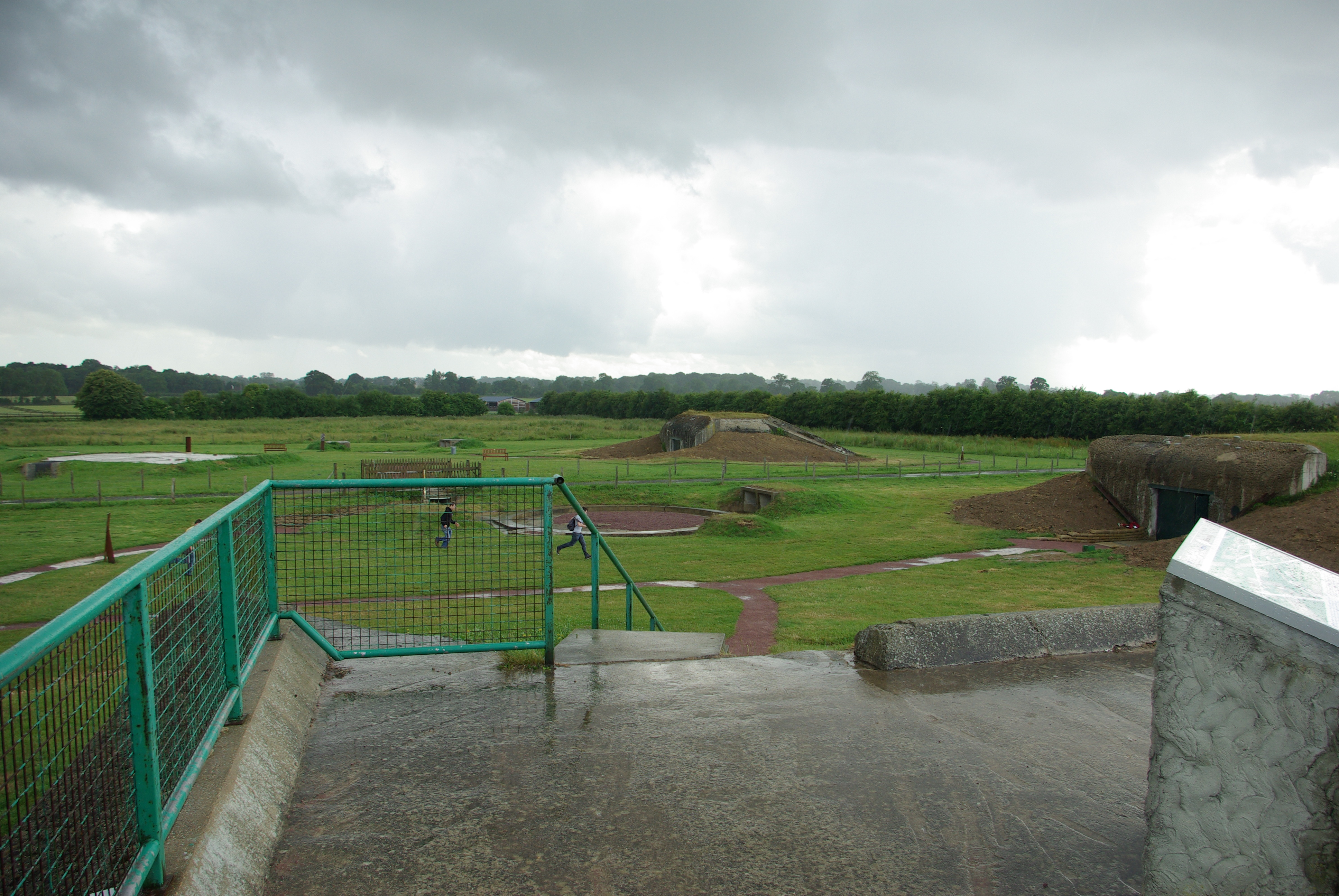 View of the Merville battery's site taken from the top of the blockhouse n°2. We can see from right to left : the blockhouses n°3 and n°4, the outside positions of the cannon n°3 and behind for the cannon n°4, and the top of the ammunition bunkers.